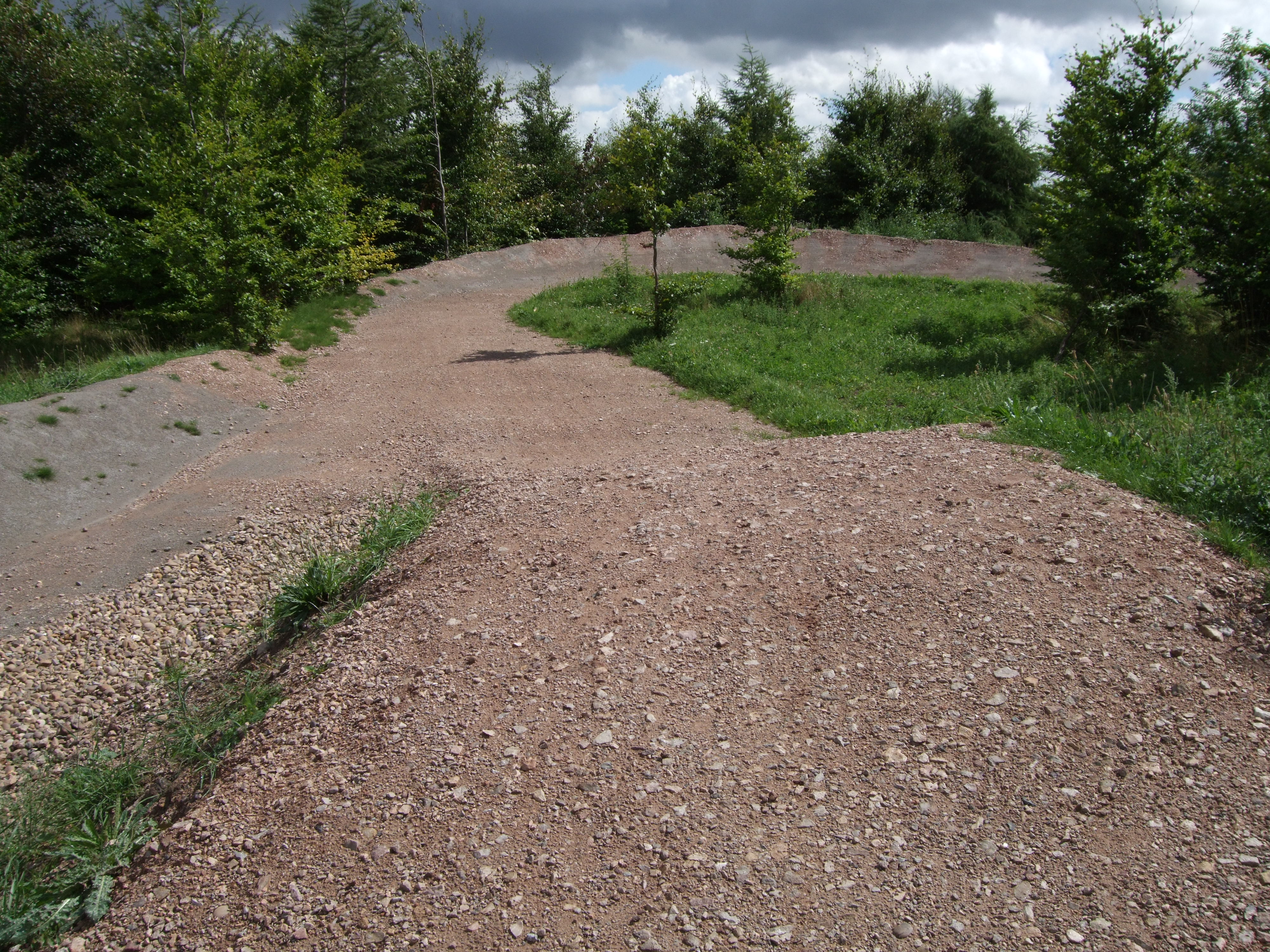 Rushcliffe Park 4x Track1